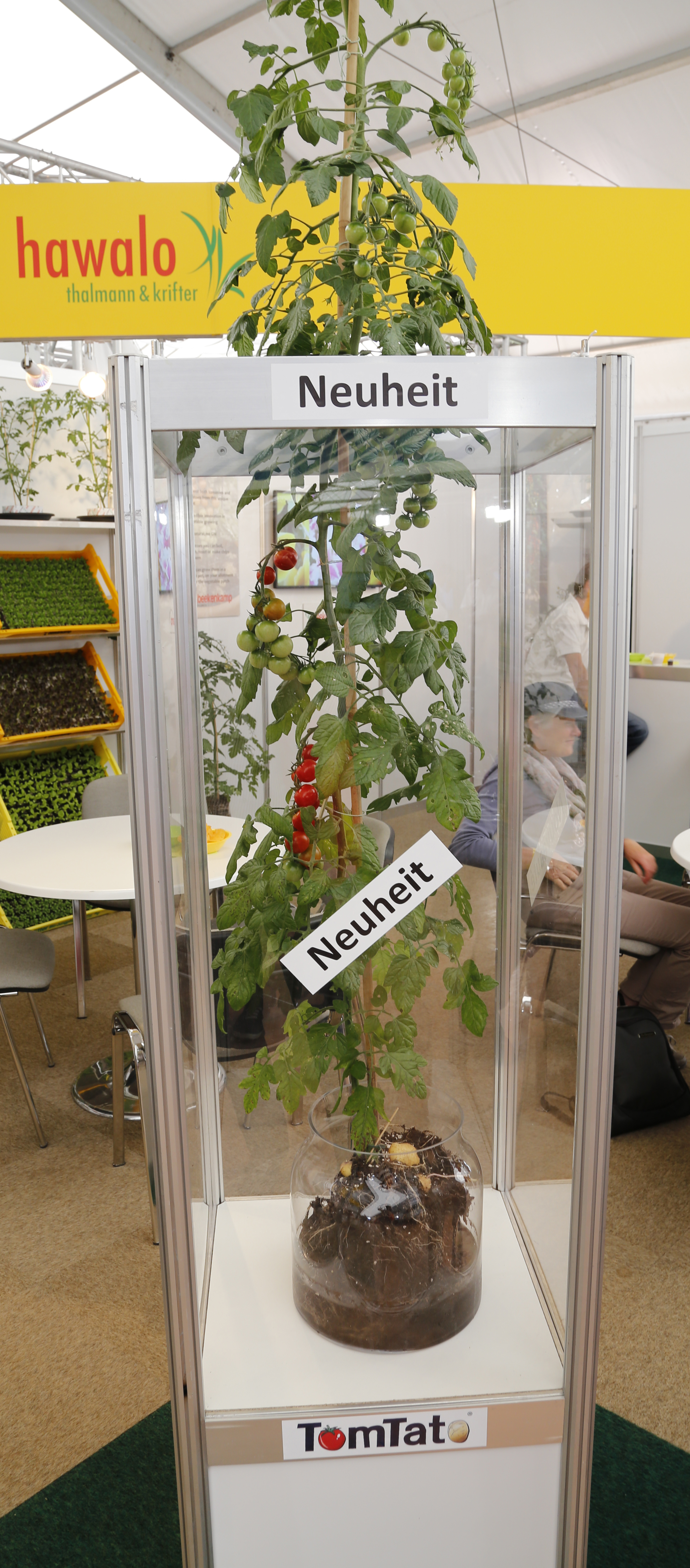 TomTato (a type of pomato), a combination of tomatoes and potatoes.